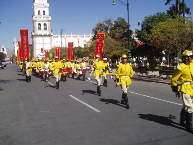 Parade of the Regiment II of Infantry "Sucre" of Bolivia, in the city of Sucre.